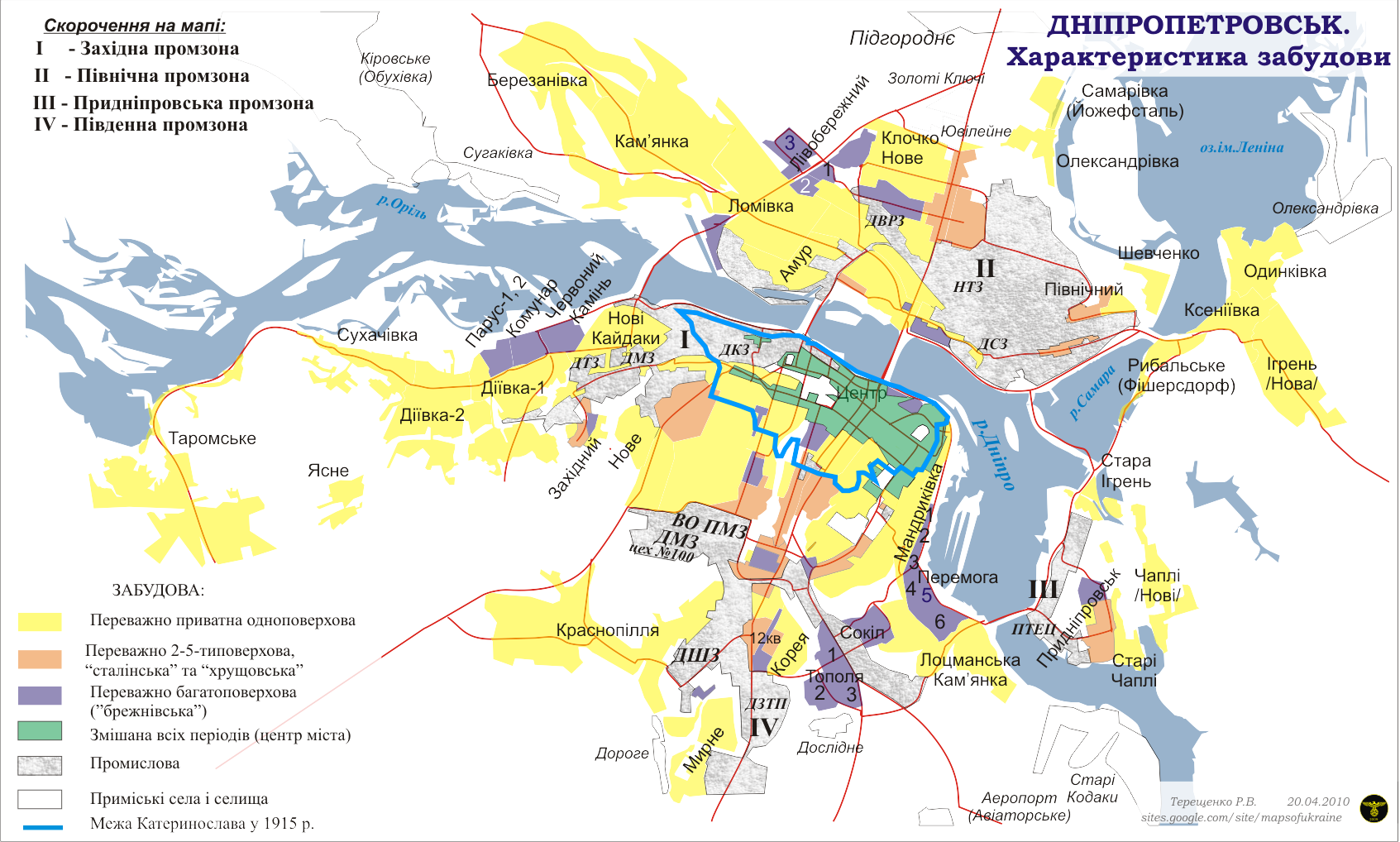 Dnipropetrovsk. Characteristics of the building